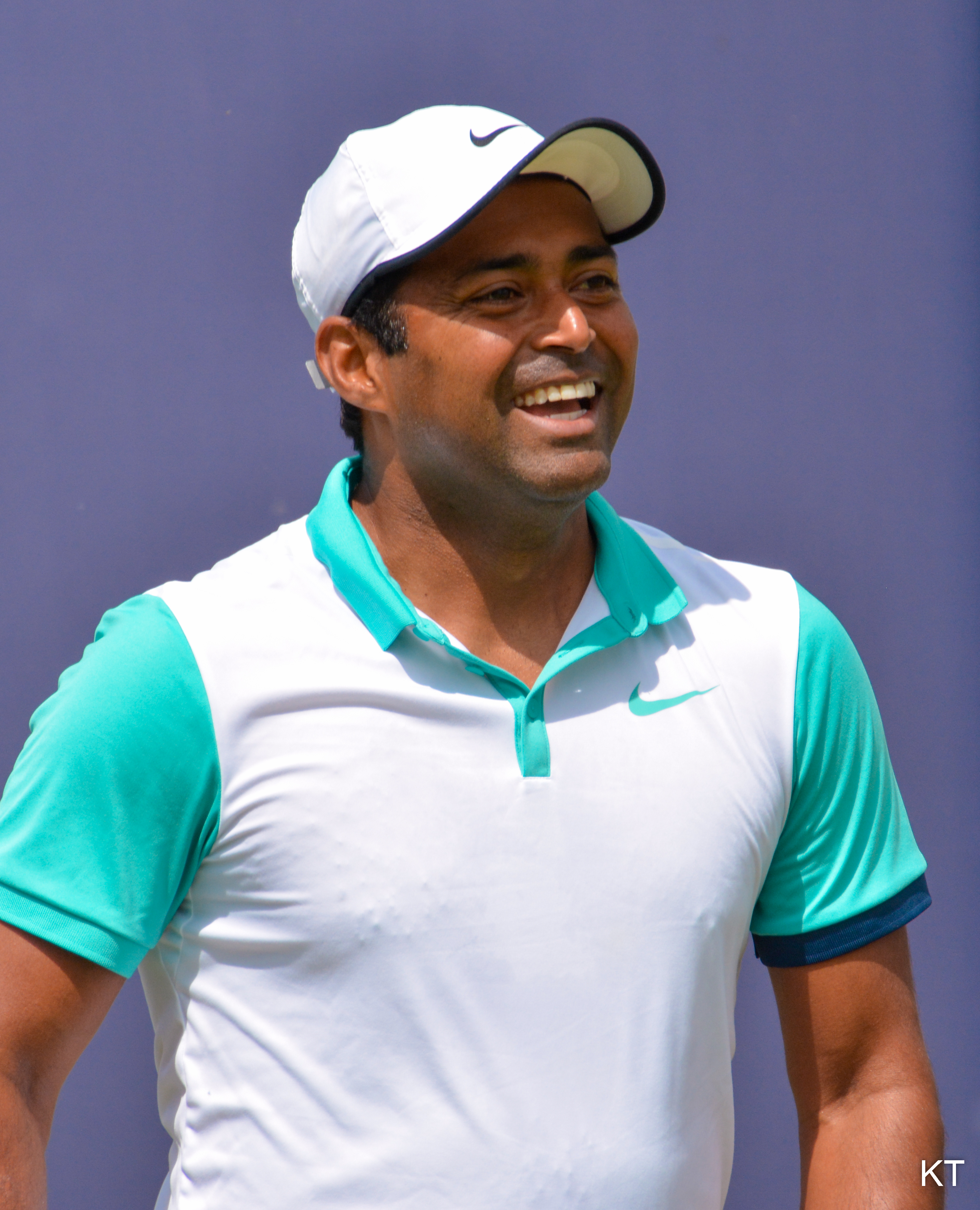 Aegon Championships, Queen's Club, June 2015.